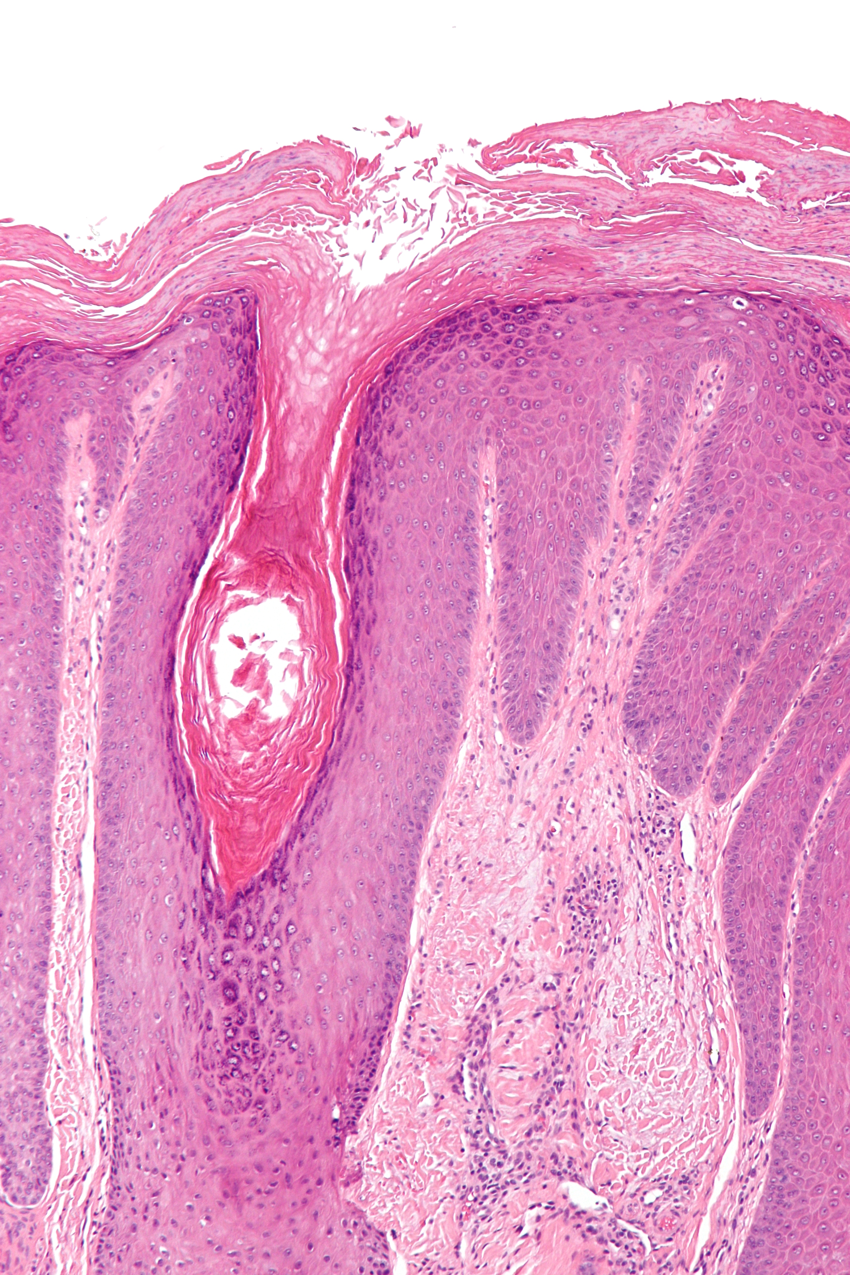 Intermediate magnification micrograph of lichen simplex chronicus, abbreviated LSC. H&E stain. Skin biopsy. Features: Acanthosis (epidermal thickening). Hyperkeratosis (thickened stratum corneum). Parakeratosis = retention of nuclei in the stratum corneum. +/- Spongiosis (epidermal intercellular edema -- cells appear to have a clear halo around 'em). Related images Very low mag. Low mag. High mag. Very high mag.